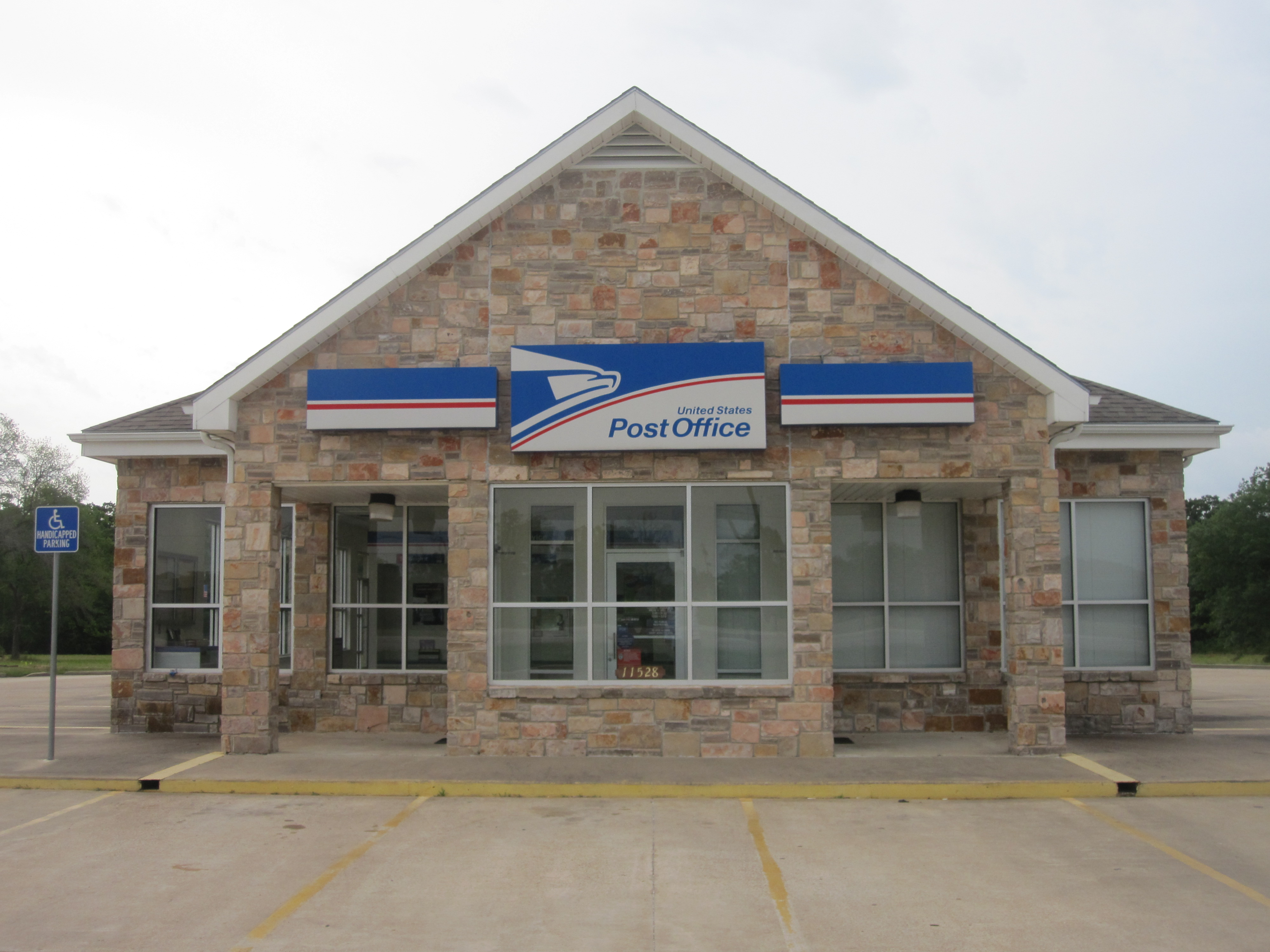 I took photo on May 14, 2010, with Canon camera.